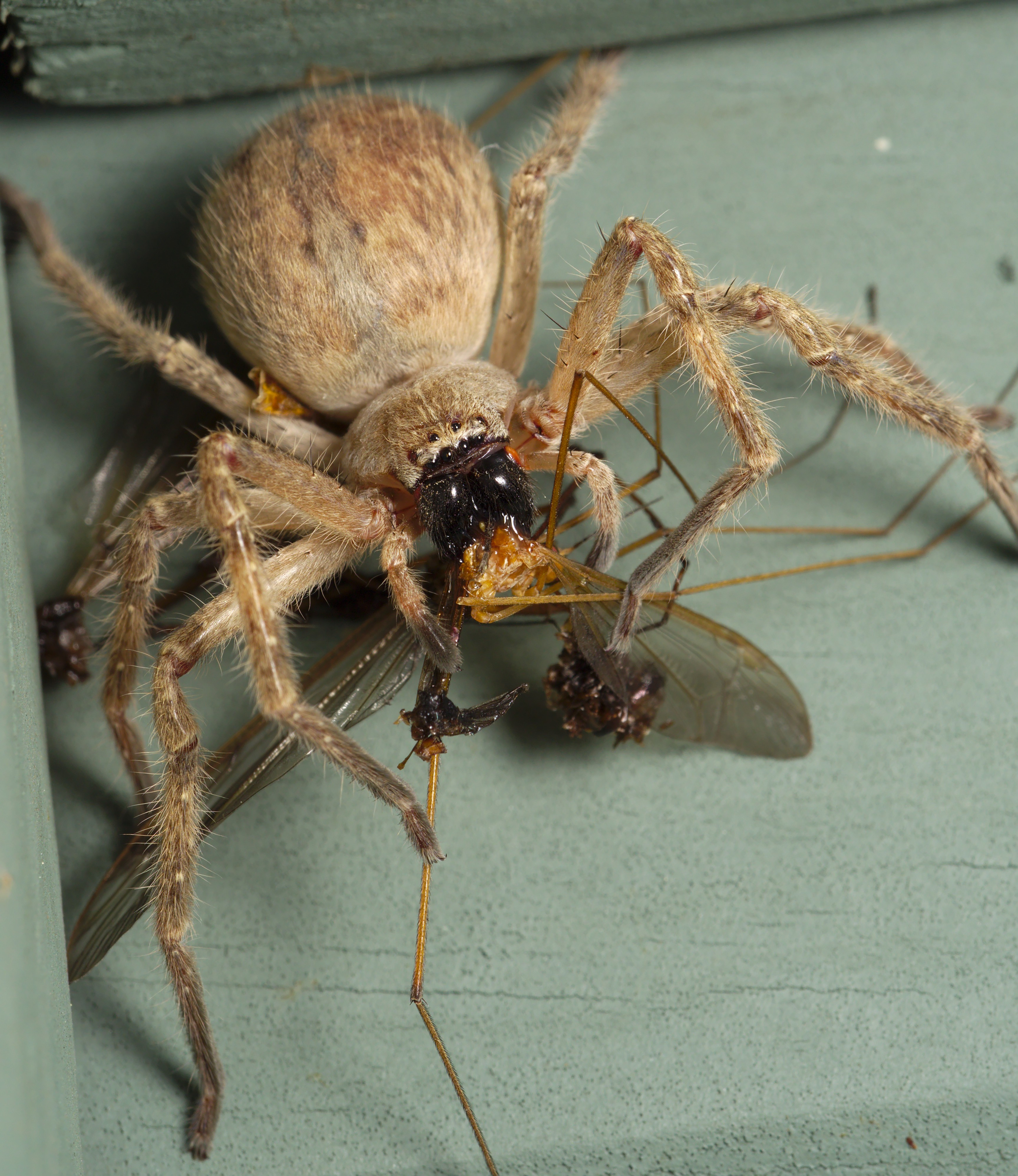 An Olios giganteus huntsman spider eating crane flies, discovered above a doorway near Lake Isabella, California.